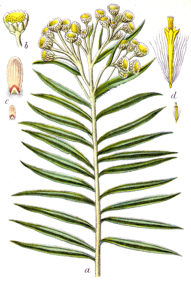 Anaphalis margaritacea (L.) Benth., syn. Gnaphalium margaritaceum L. Original Caption Perlblume, Gnaphalium margaritaceum